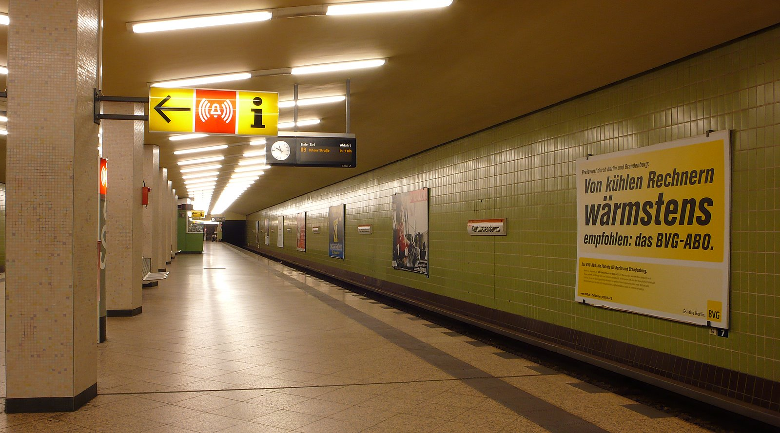 Subway Kurfuerstendamm U9